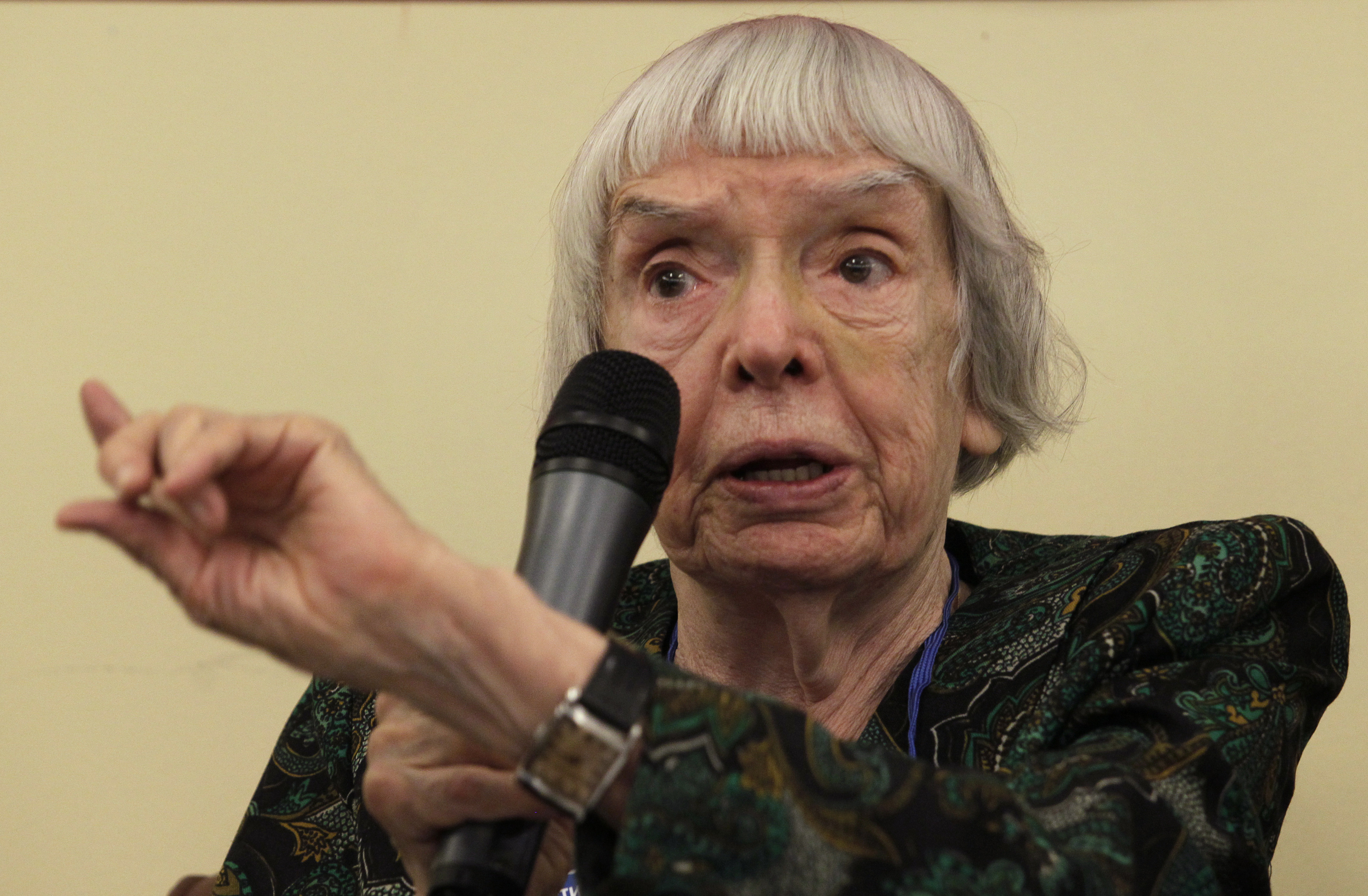 Lyudmila Alexeyeva